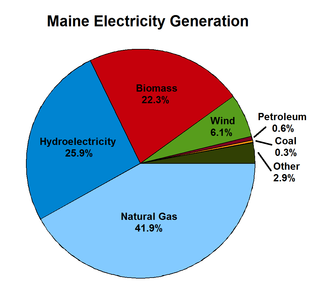 Sources of electricity generated in Maine. 2012 (US EIA)